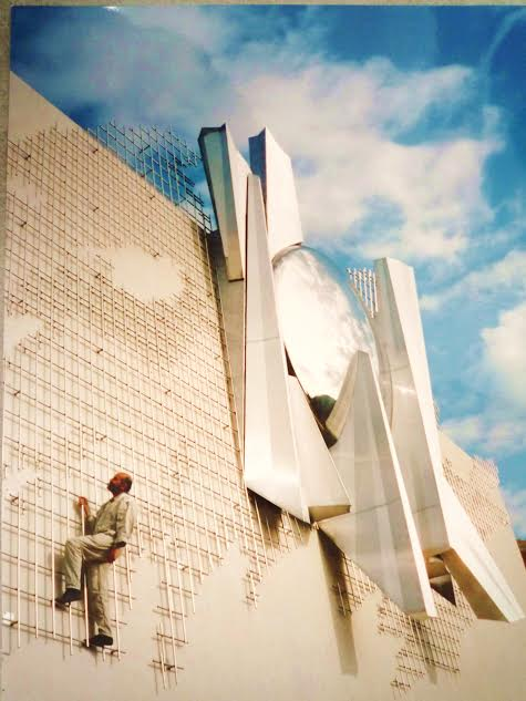 Sculpture, above entrance to Tunnel leading to Monaco